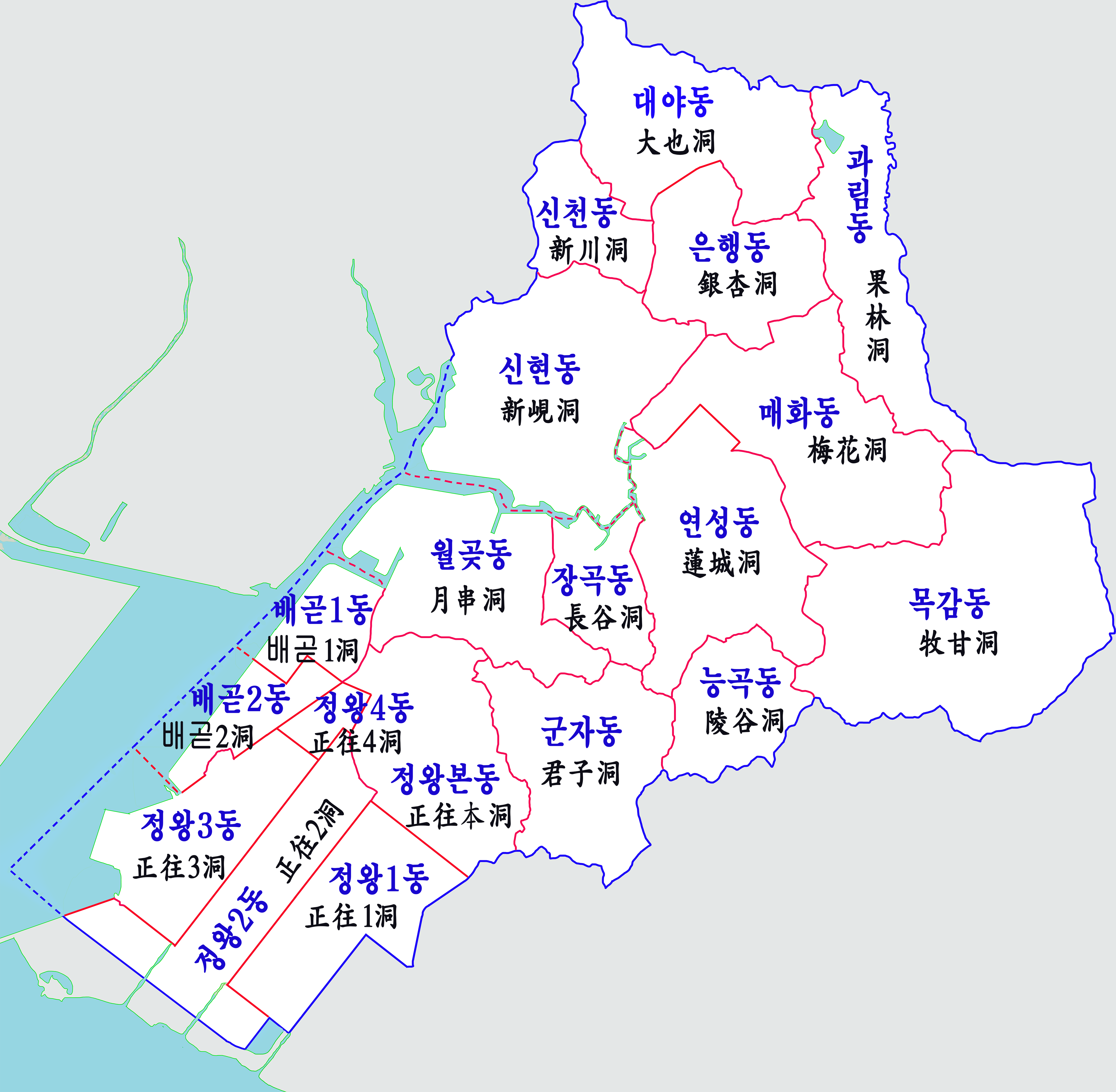 Siheung City detail Map